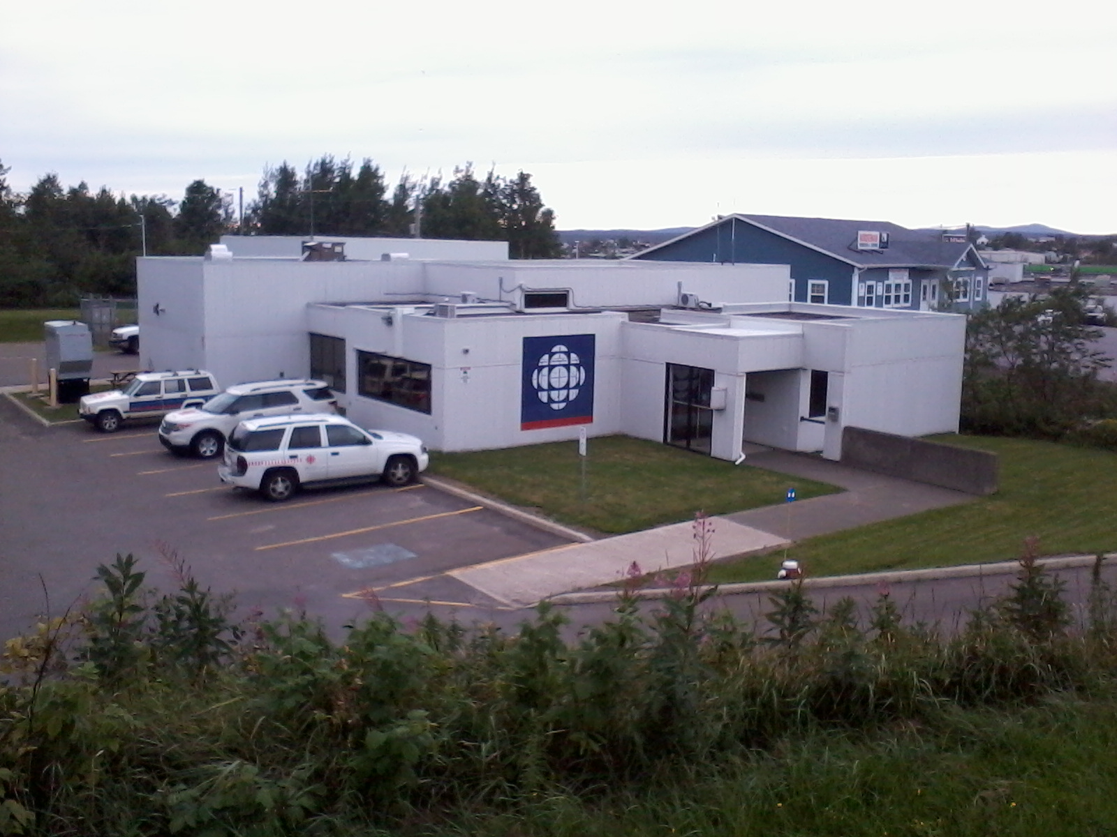 Headquarters of CBT (AM) in Grand Falls-Windsor, Newfoundland & Labrador.